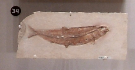 A fossil Leptolepis dubia from the Solnhofen limestones of Germany. Carnegie Museum of Natural History #cm4694